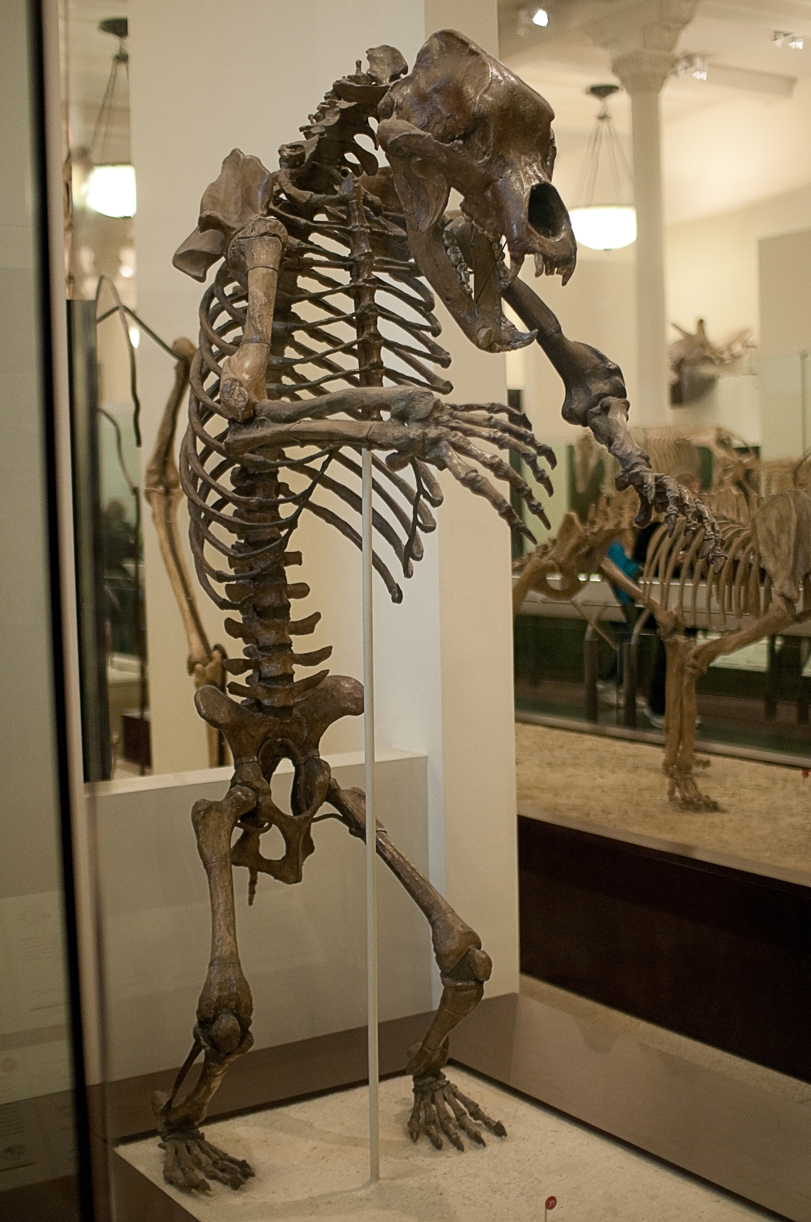 A Day at the Museum